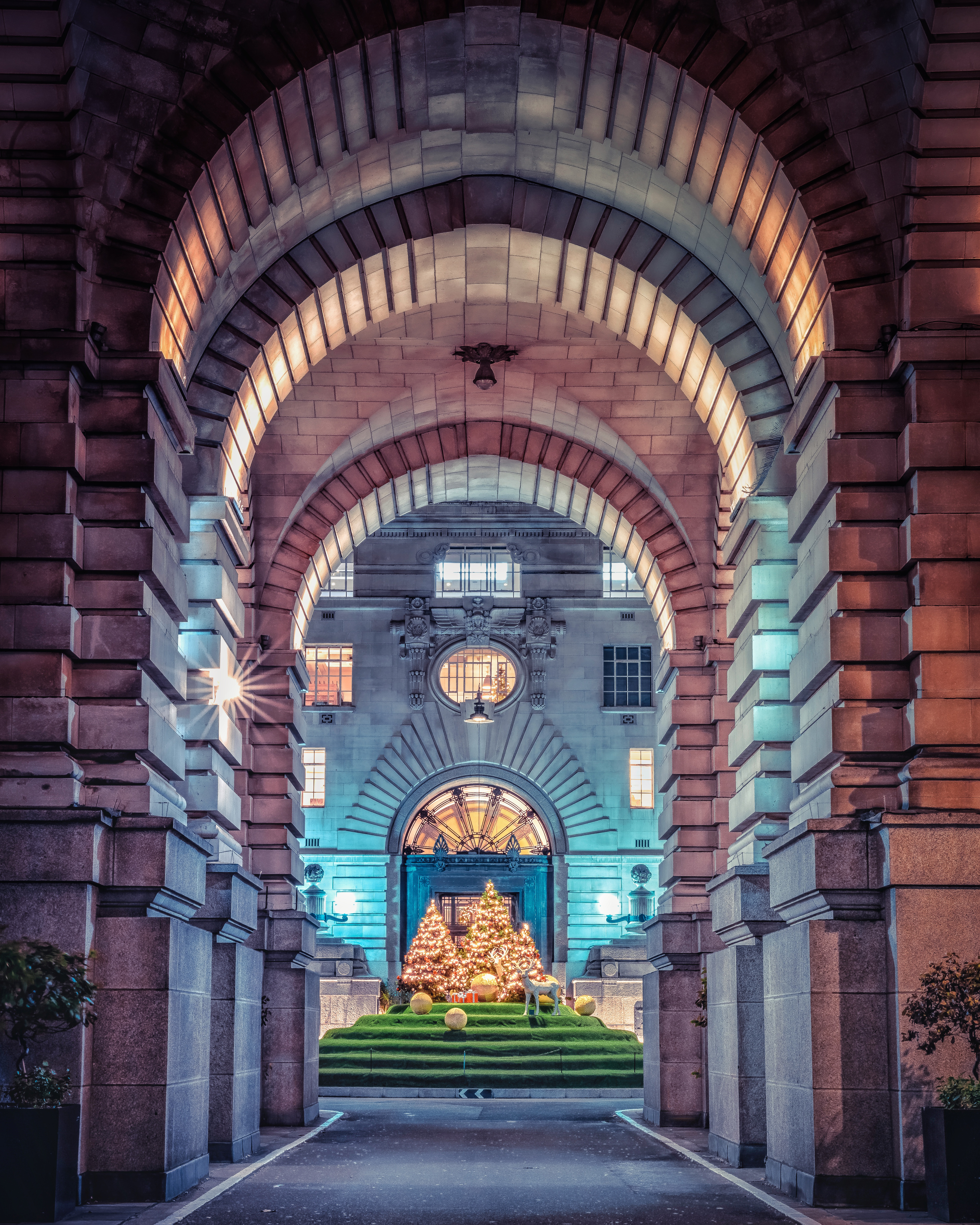 Entrance to Marriott London County Hall during the Hoildays